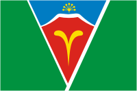 Ishimbai (Bashkortostan), flag